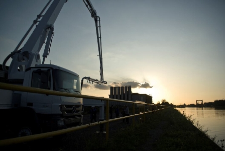 The picture shows a test for the event "Schwingungen" at the KulturKanal.